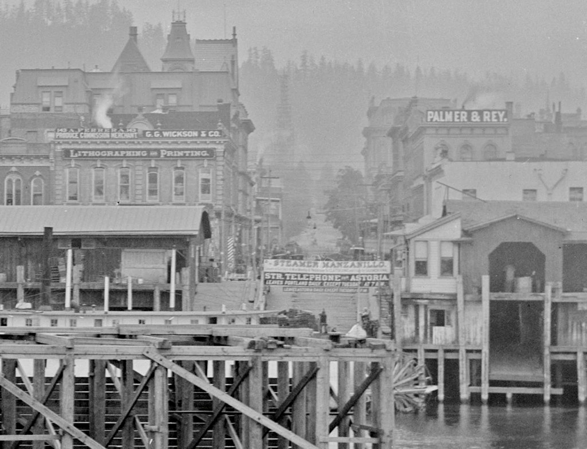 Photograph originally taken from a glass plate negative, looking west along north side of the original Morrison Bridge showing the turning bascule for the bridge as well as the Morrion street dock from which steamers departed for points along the Columbia and Willamette rivers. At least one steamboat can be seen in the image. The dock shows banners advertising the steamers Manzanillo and Telephone.